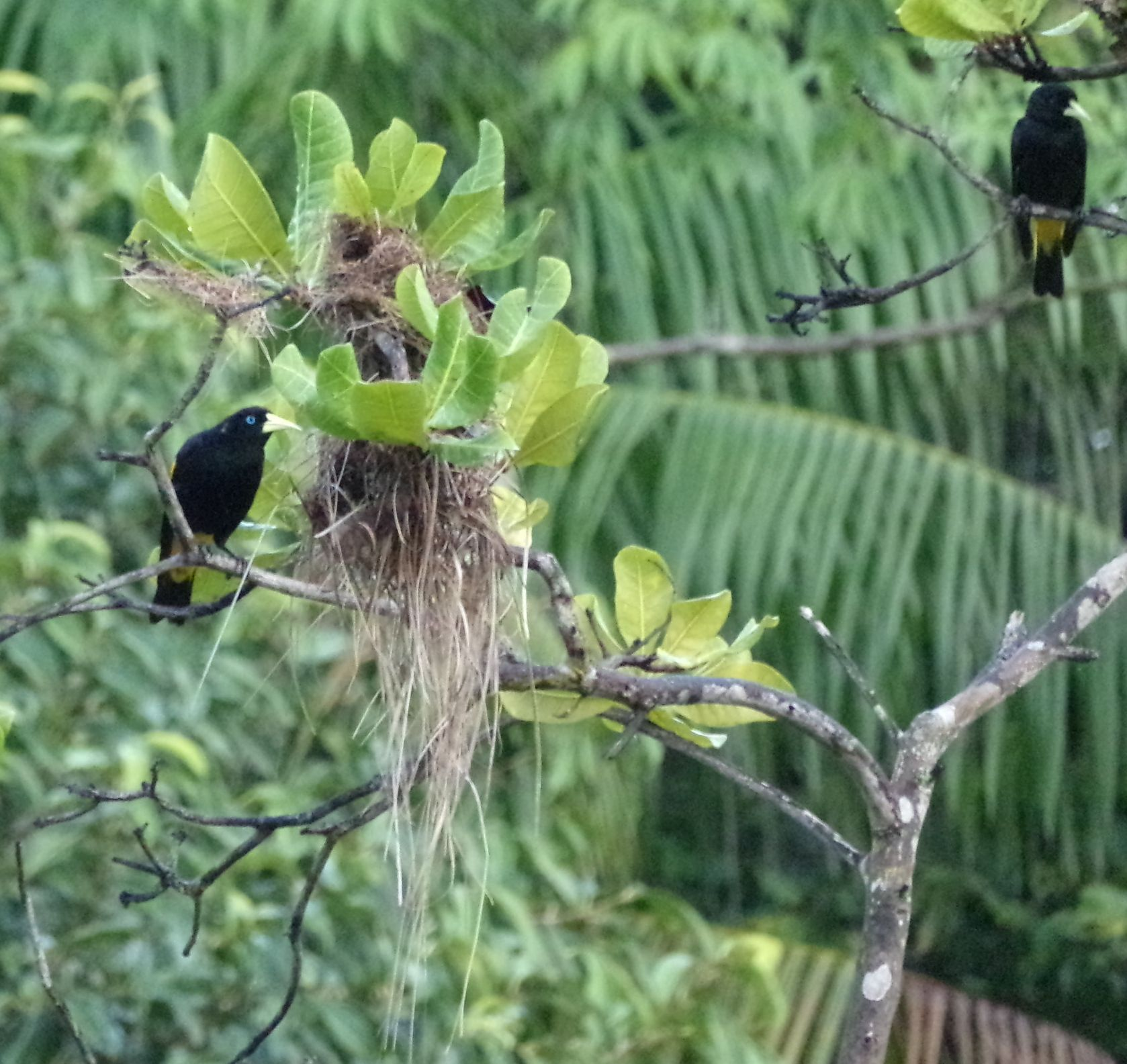 Xexeu (Cacicus cela Linnaeus, 1758), foto tirada no Parque Ambiental Adhemar Monteiro em Paragominas-Pa.